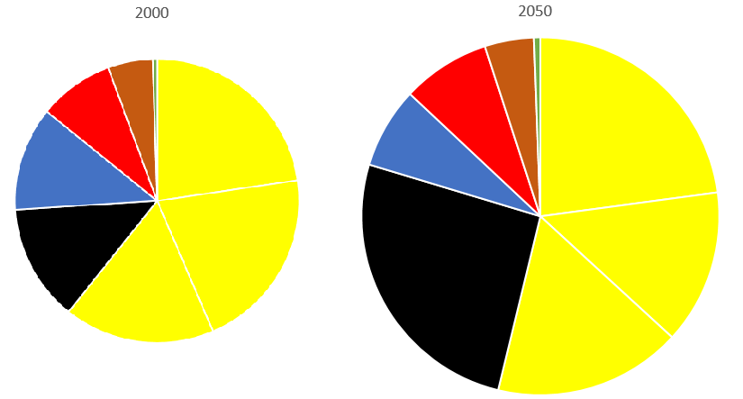 UN population estimates by continent for 2000 and 2050. Data from UN World Population Prospects 2017. Projections for 2050 are the "median" estimates of the 2017 edition of UN World Population Prospects. color code selected for consistency with File:World population (UN).svg: yellow: Asia, black: Africa, blue: Europe, red: South+Central America + Caribbean, brown: North America, green: Oceania. The two pie chart sizes are to scale (area ratio 1.60, diameter ratio 1.26) Data for Asia is shown divided into three sections, Asia (other), China, India, to represent China and India separately as the two most populous countries. Data (population in millions): 2000: World: 6144, Asia (other): 1394 [23%], China: 1283 [21%], India: 1054 [17%], Africa: 817 [13%], Europe: 727 [12%], South America: 526 [8.6%], North America: 313 [5.1%], Oceania: 31 [0.5%]. 2050: World: 9771 (+60%), Asia (other): 2234 [23%] (+60%), China: 1364 [14%] (+6%), India: 1659 [17%] (+57%), Africa: 2528 [26%] (+209%), Europe: 715 [7.3%] (-1.7%), South America: 780 [8.0%] (+48%), North America: 434 [4.4%] (+39%), Oceania: 57 [0.6%] (+84%). Average population growth is projected as +60%, or 0.94% p.a. on average. Growth is driven by the disproportionate growth of African population (+209%, 2.3% p.a.), offset by the near-stagnation in China (+6%, 0.1% p.a.) and in Europe (-1.7%, -0.03% p.a.).